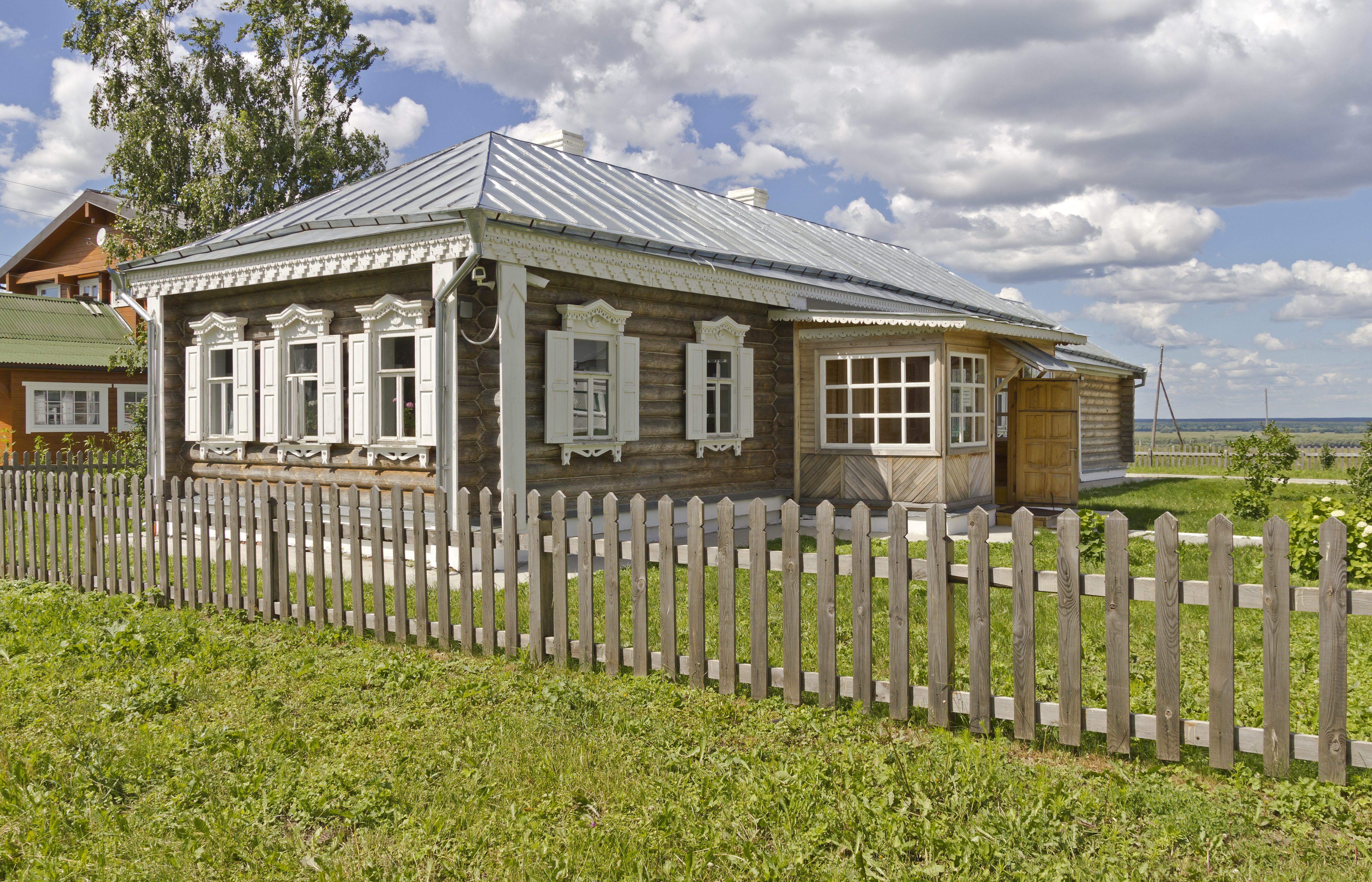 Former house of priest I.Y.Smirnov in Konstantinovo village, Ryazan Oblast, Russia